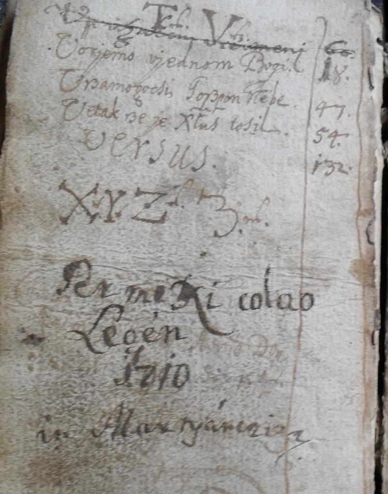 Subscription of Miklós Legén in the Old hymnal of Martjanci from 1710. Legén was Slovene evangelic teacher in Martjanci in the 17th-18th century, one author of the old hymnal in prekmurian language.